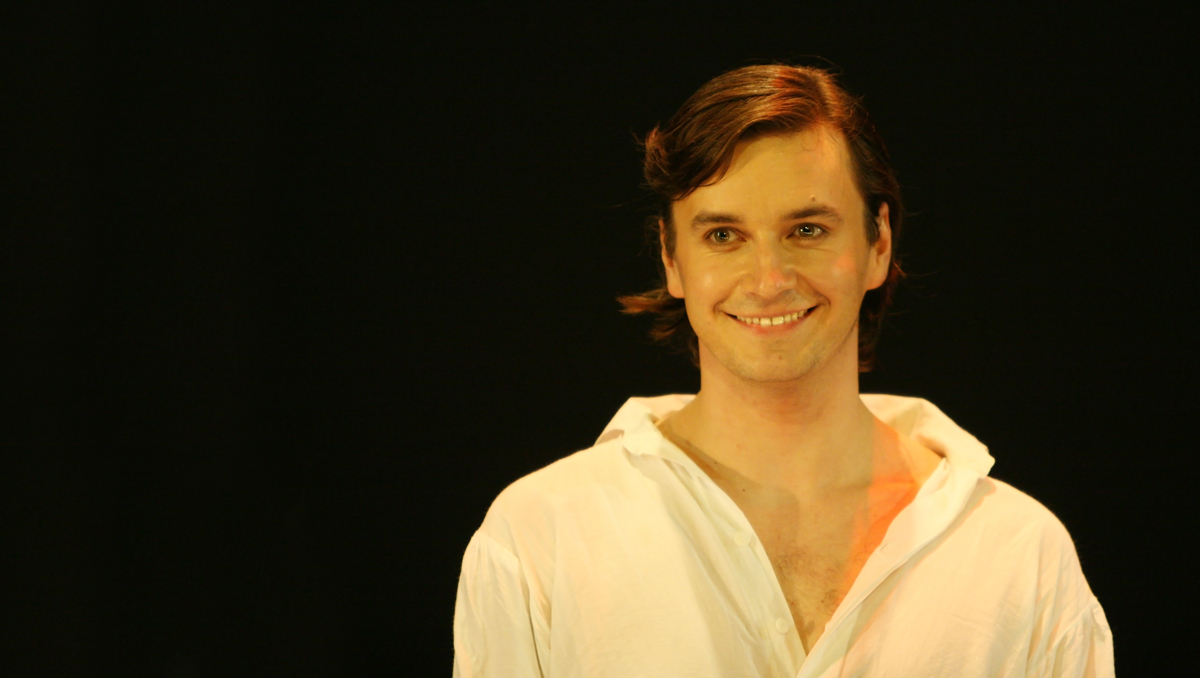 Piotr Domalewski as Vicomte de Chagny in the musical "The Phantom of the Opera" in Roma Musical Theatre in Warsaw, 19.04.2009